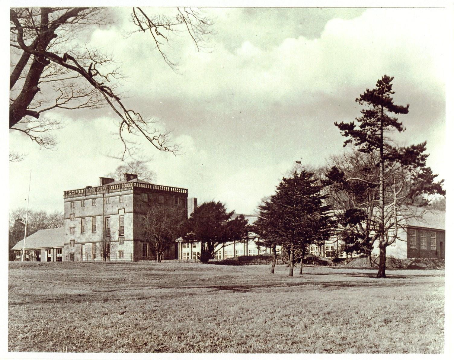 Tupton Hall, Wingerworth, Derbyshire, photographed after 1929 when converted to a school and schoolbuildings added as wings. Photographed before destruction by fire and demolition in 1938.